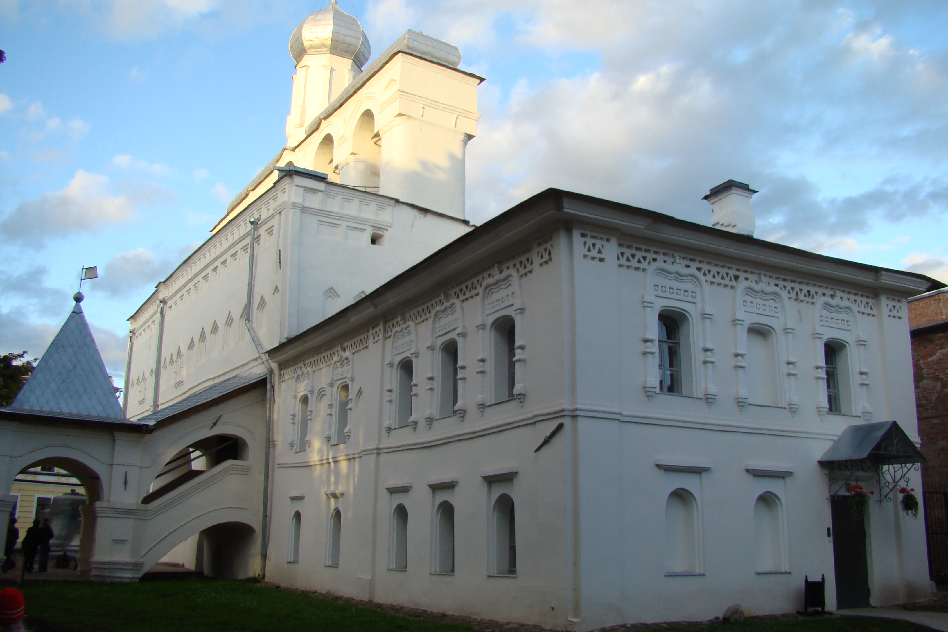 Sofiyskaya Zvonnica, Detinets, Velikiy Novgorod, Russia